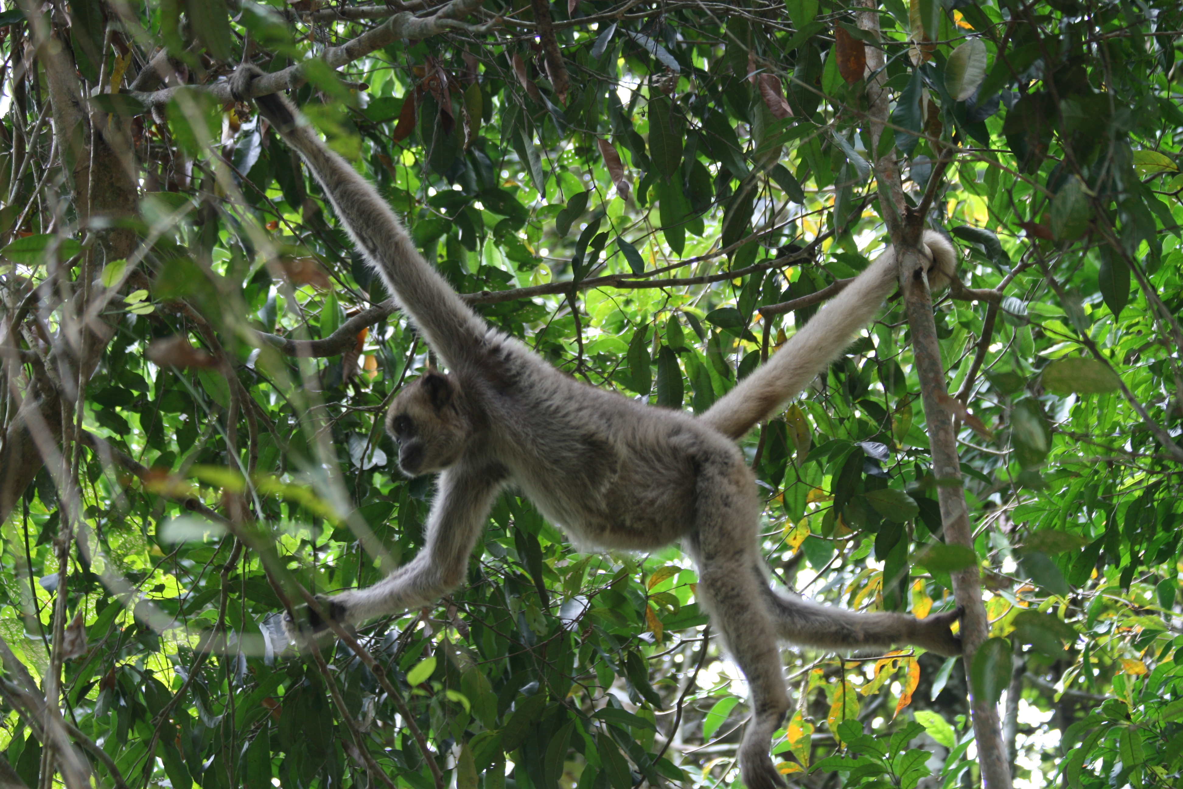 A northern muriqui (Brachyteles hypoxanthus) locomoting.